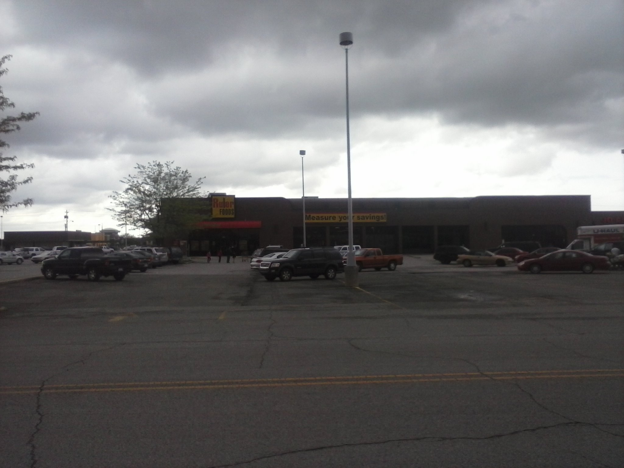 Ruler Foods store in Marion, Indiana